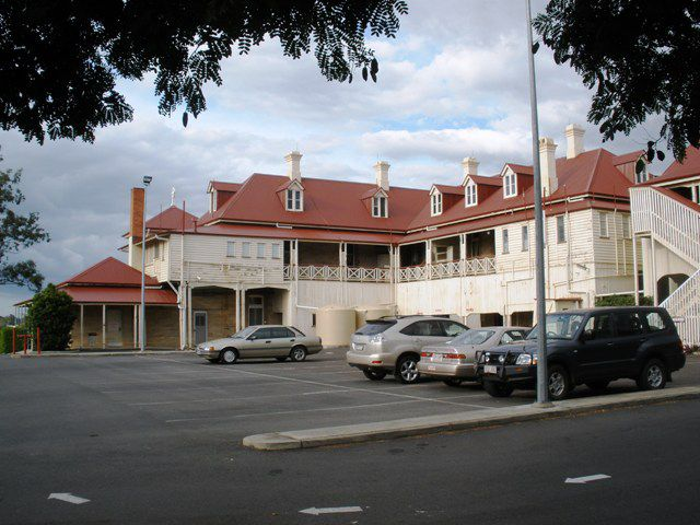 St Marys Roman Catholic Church Precinct, convent (2009)